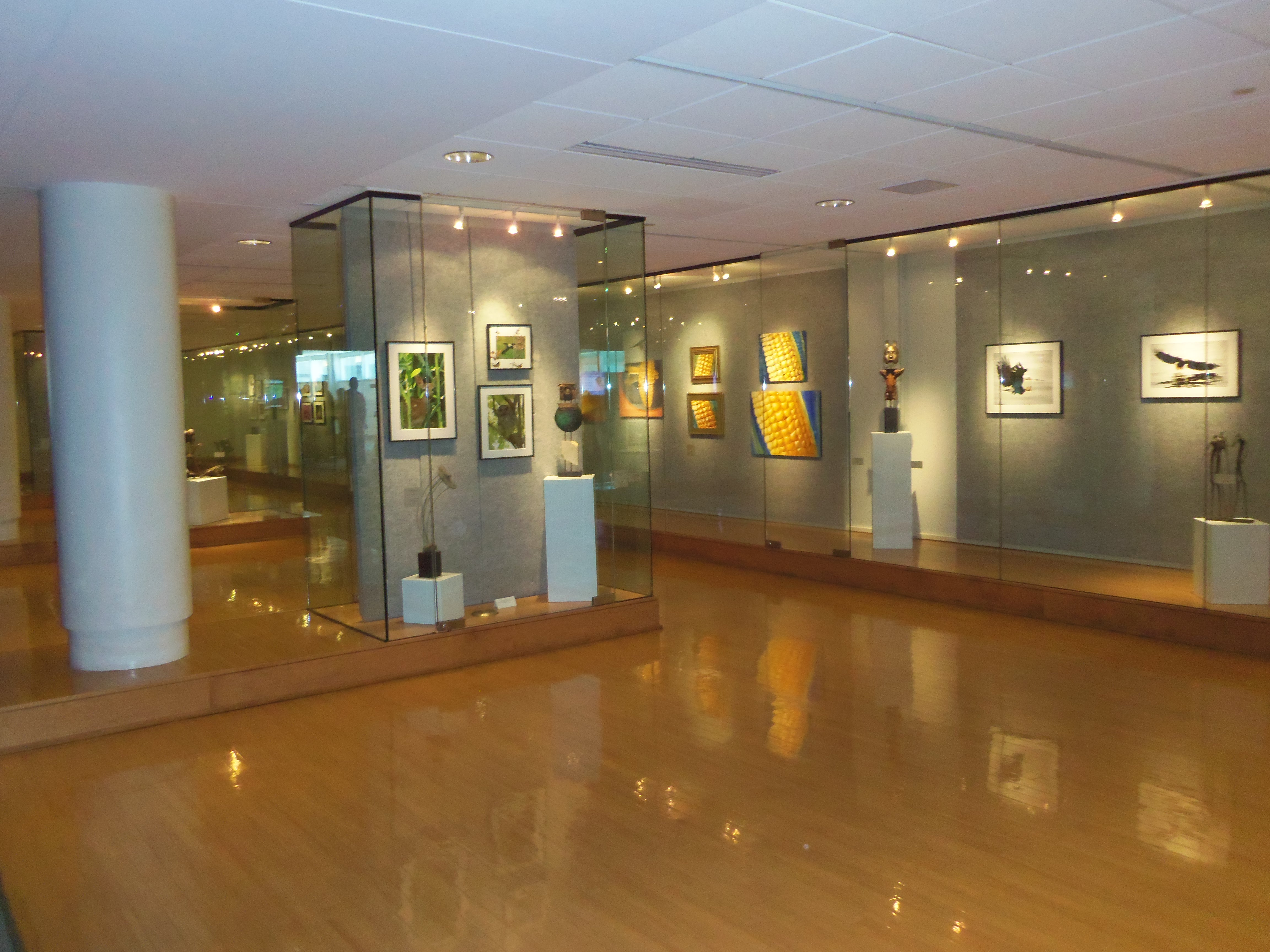 Art Gallery in the Quad City International Airport, Moline, Illinois